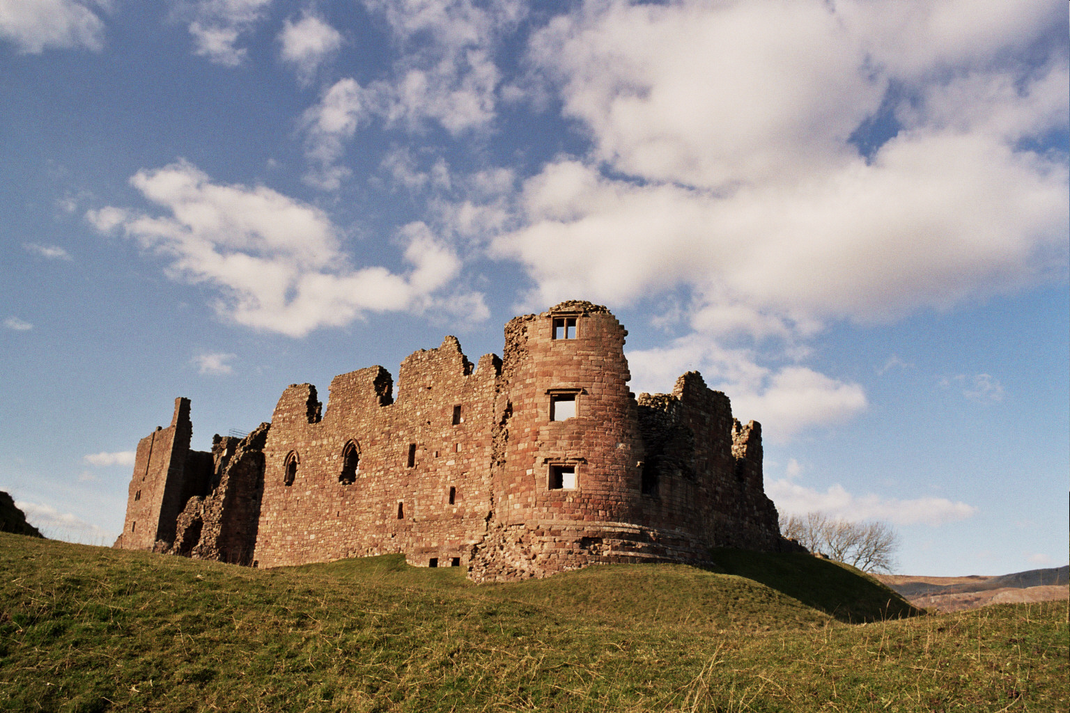 Brough Castle, in Brough, Cumbria, England. View from the south east with Clifford's Tower in the foreground, and the keep on the left. Taken by Supergolden.